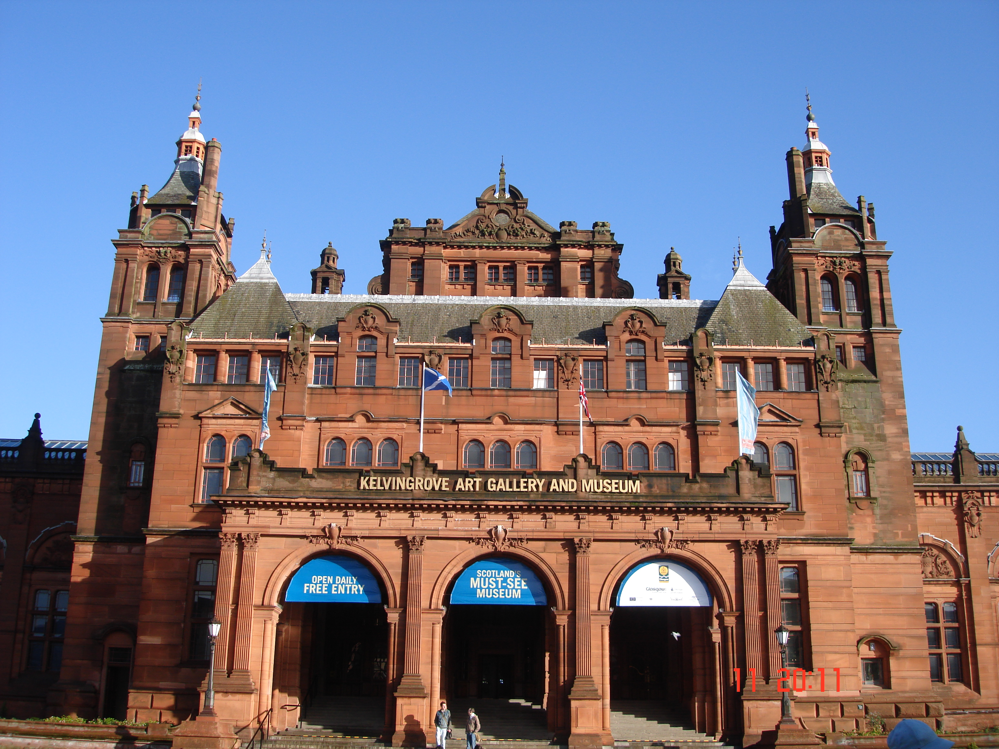 Main Entrance of the Kelvingrove Art Meseum